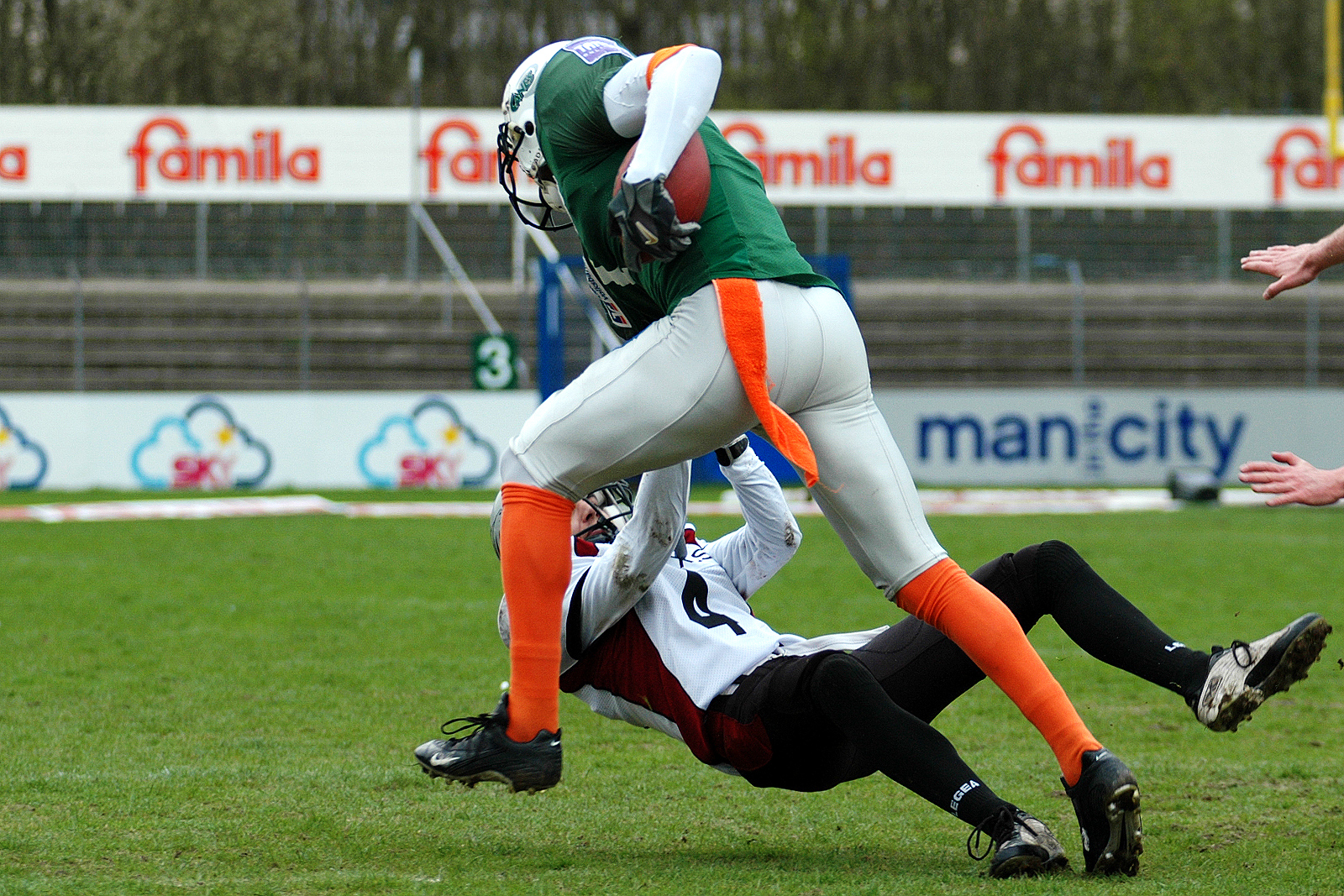 Football action (Hamburg Eagles @ Kiel Baltic Hurricanes)